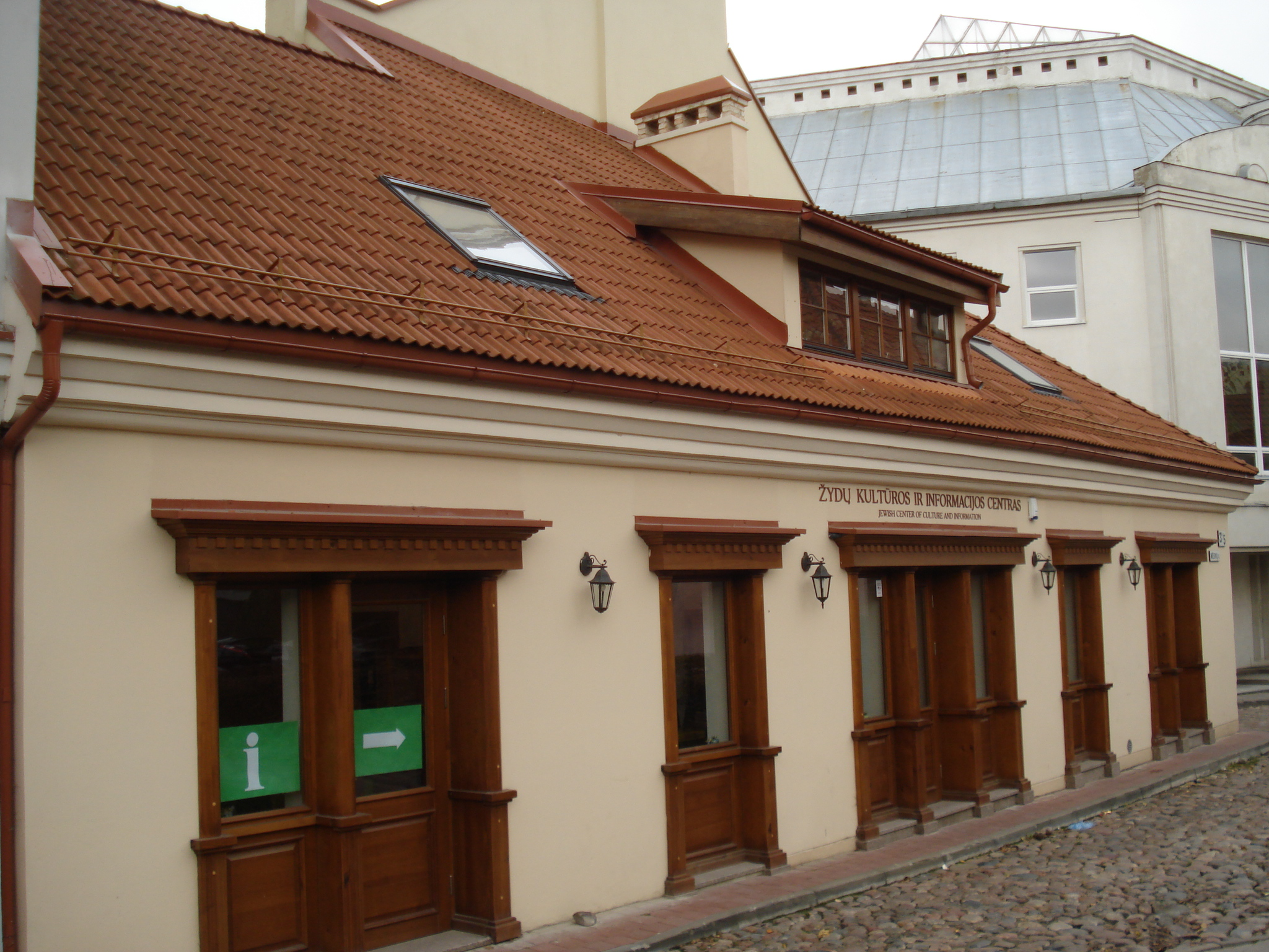 Jewish Culture and Information Center in Vilnius. Žydų kultūros ir informacijos centras. Mėsinių street 3a / 5. Opened in 2007